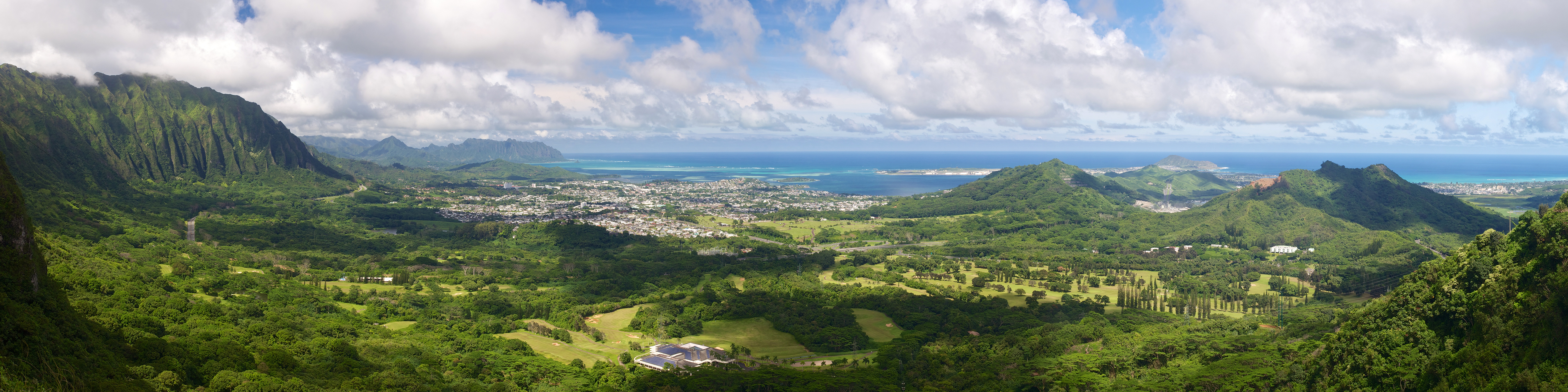 Kāneʻohe Bay area with Kāneʻohe; View from the Nuʻuanu Pali Lookout, Oʻahu., Hawaiʻi, US